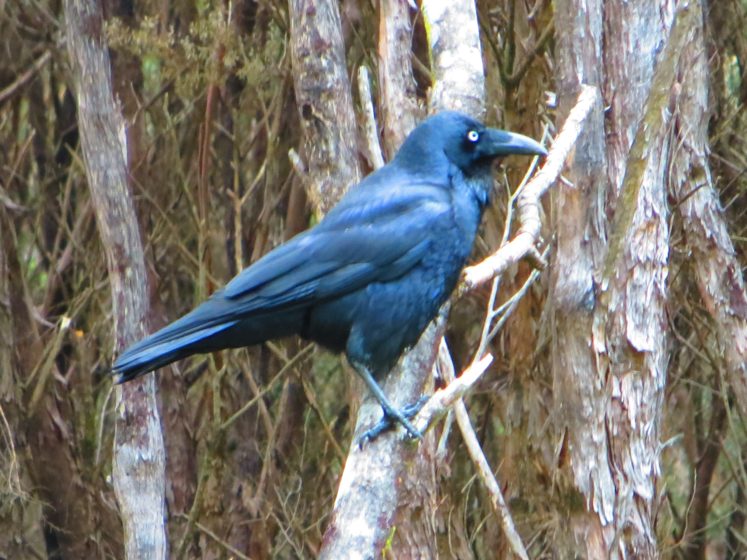 Forest raven (Corvus tasmanicus), Renison Bell Conservation Reserve, Tasmania, Australia